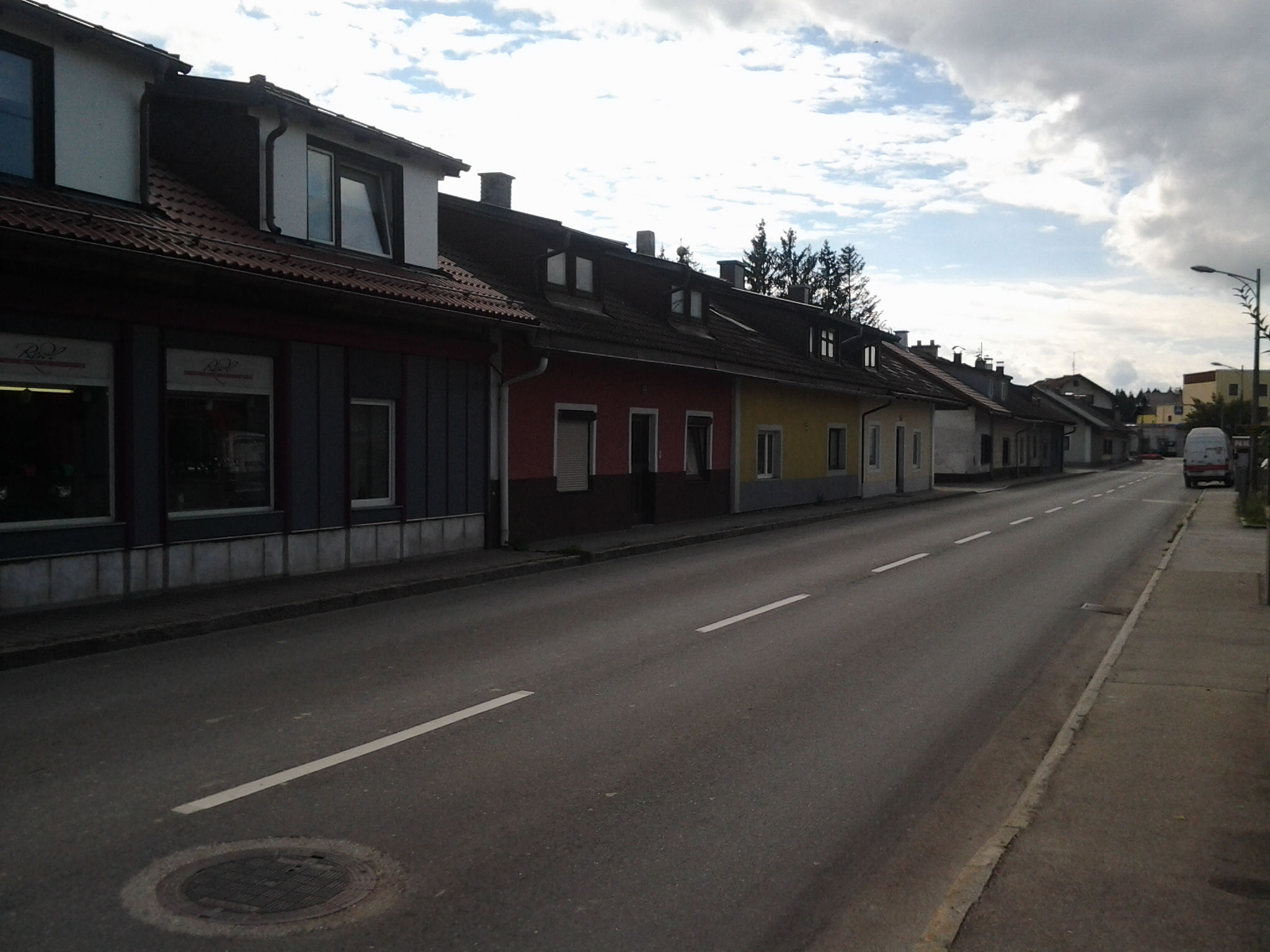 state road L115 as main street of Bürmoos, Austria